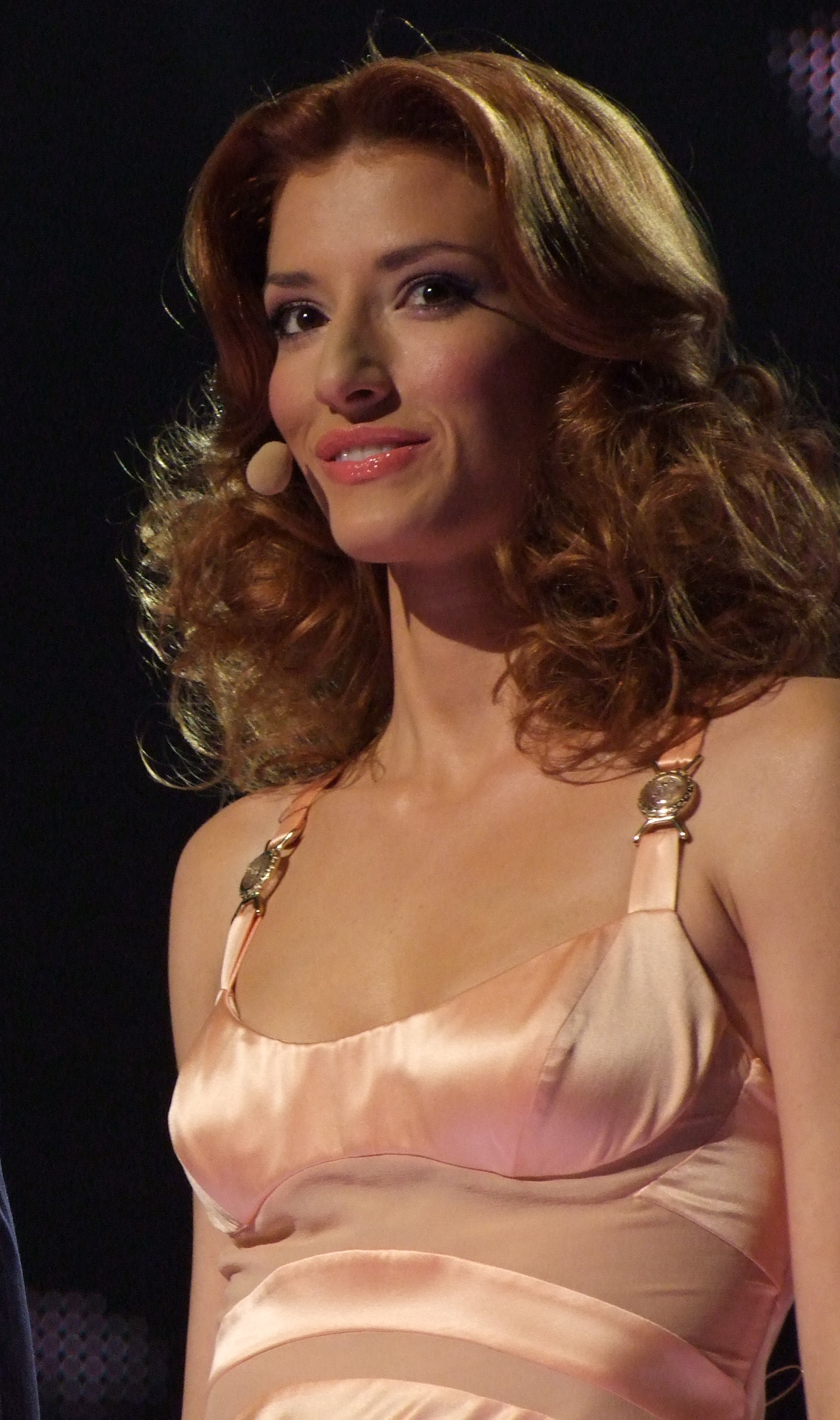 Jovana Janković during the semi final at Eurovision 2008